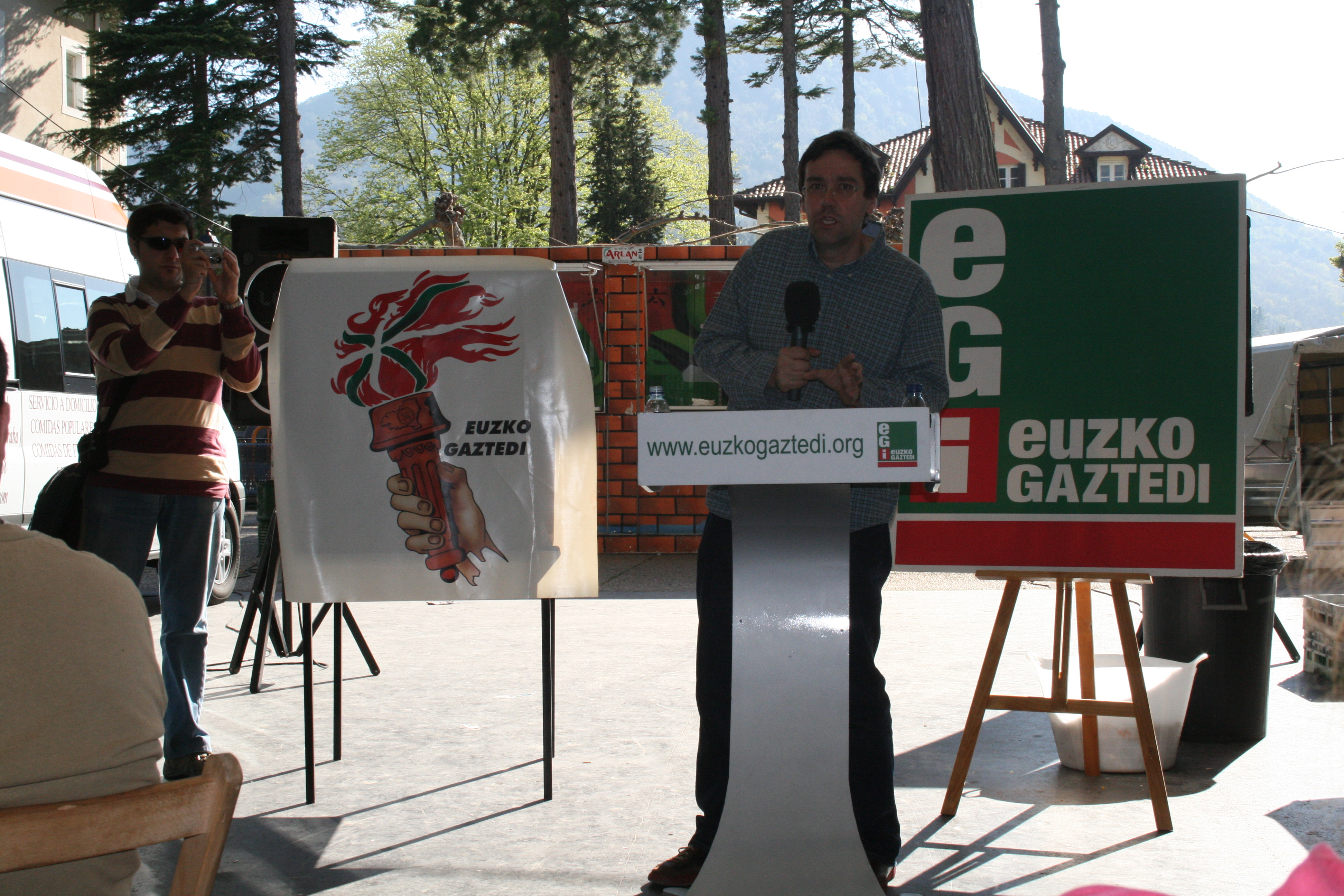 Iñaki Gerenabarrena with EGI members.